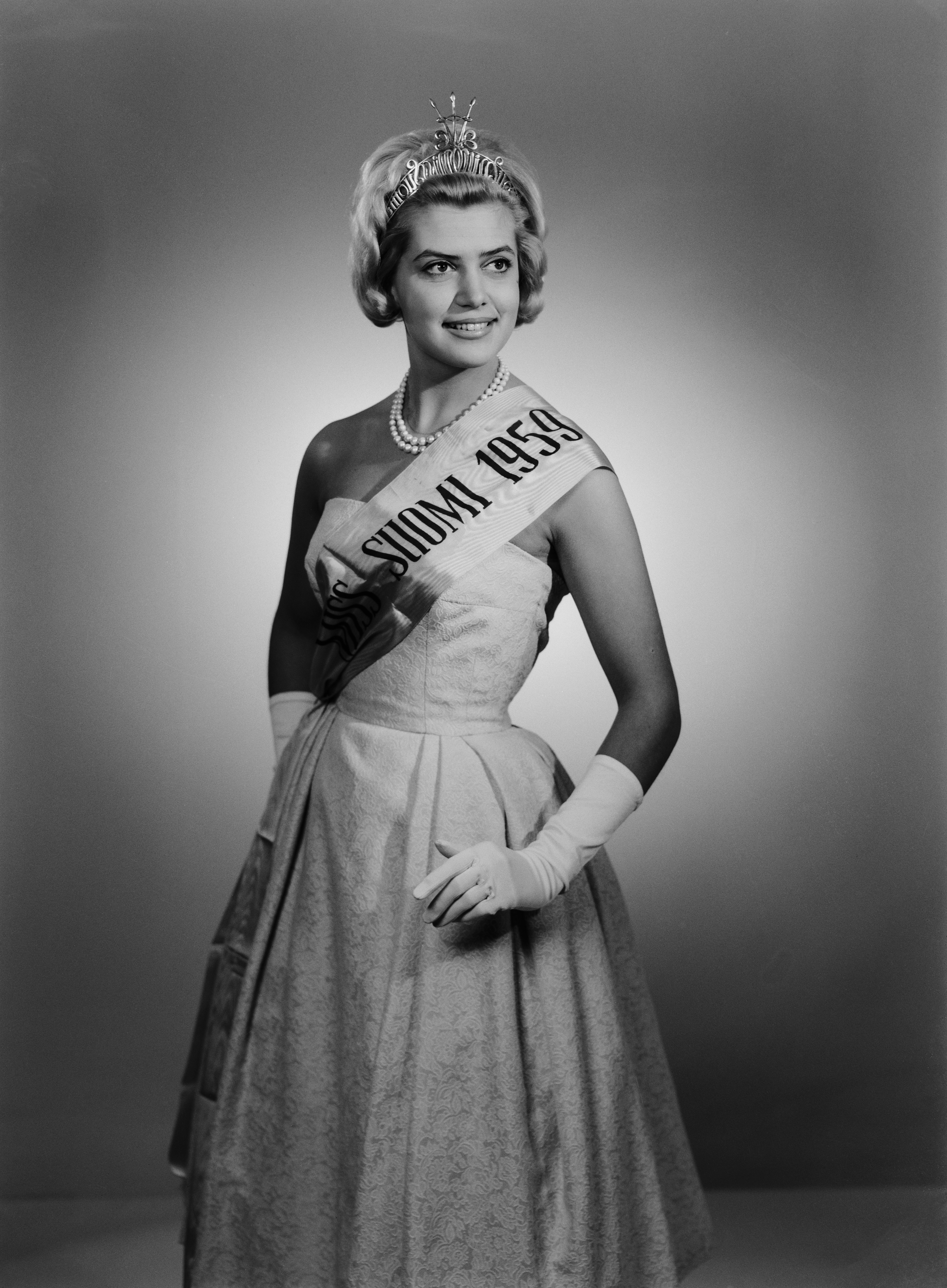 Photograph of the Finnish beauty pageant Tarja Nurmi (1938–).